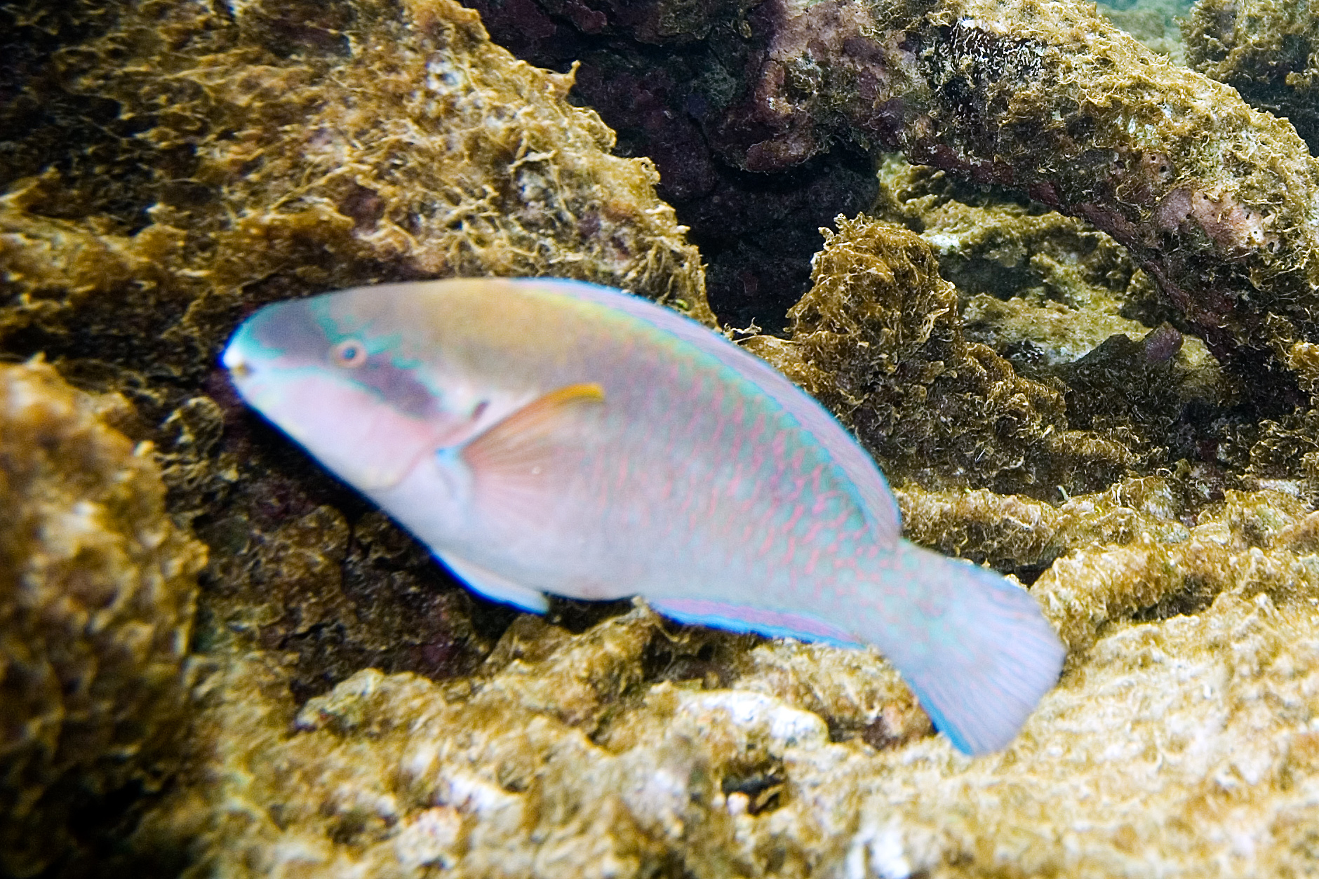 terminal phase